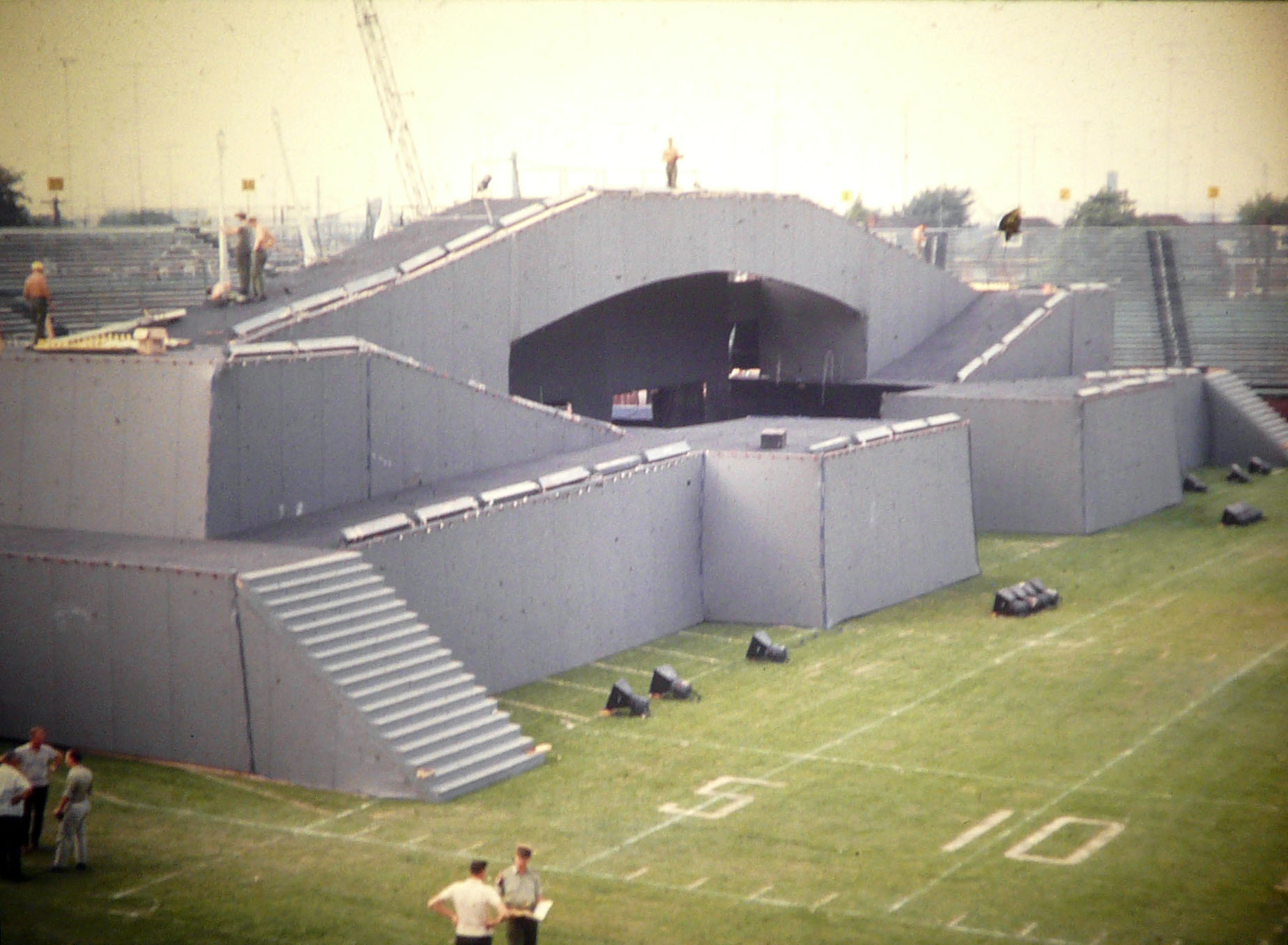 The fort for Tattoo 1967 ready for the "show" in September 1967 at Hamilton, Ontario